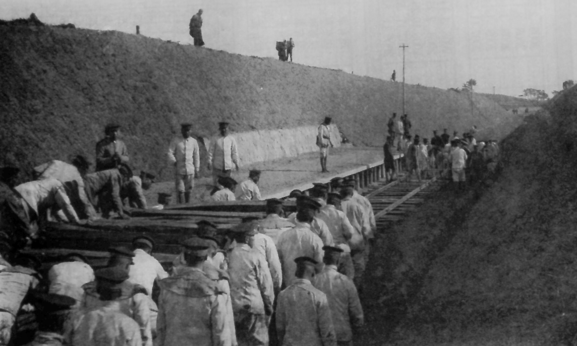 Army engineers building Moto-Choshi Station on the Choshi Sightseeing Railway (now part of the Choshi Electric Railway)